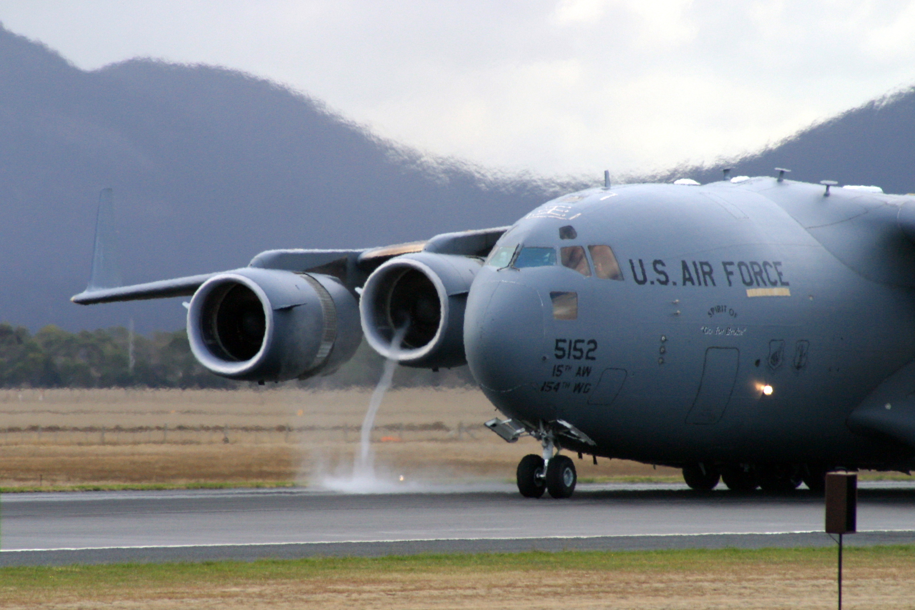 A Boeing C-17A demonstrating the use of reverse thrust to push the aircraft backwards.